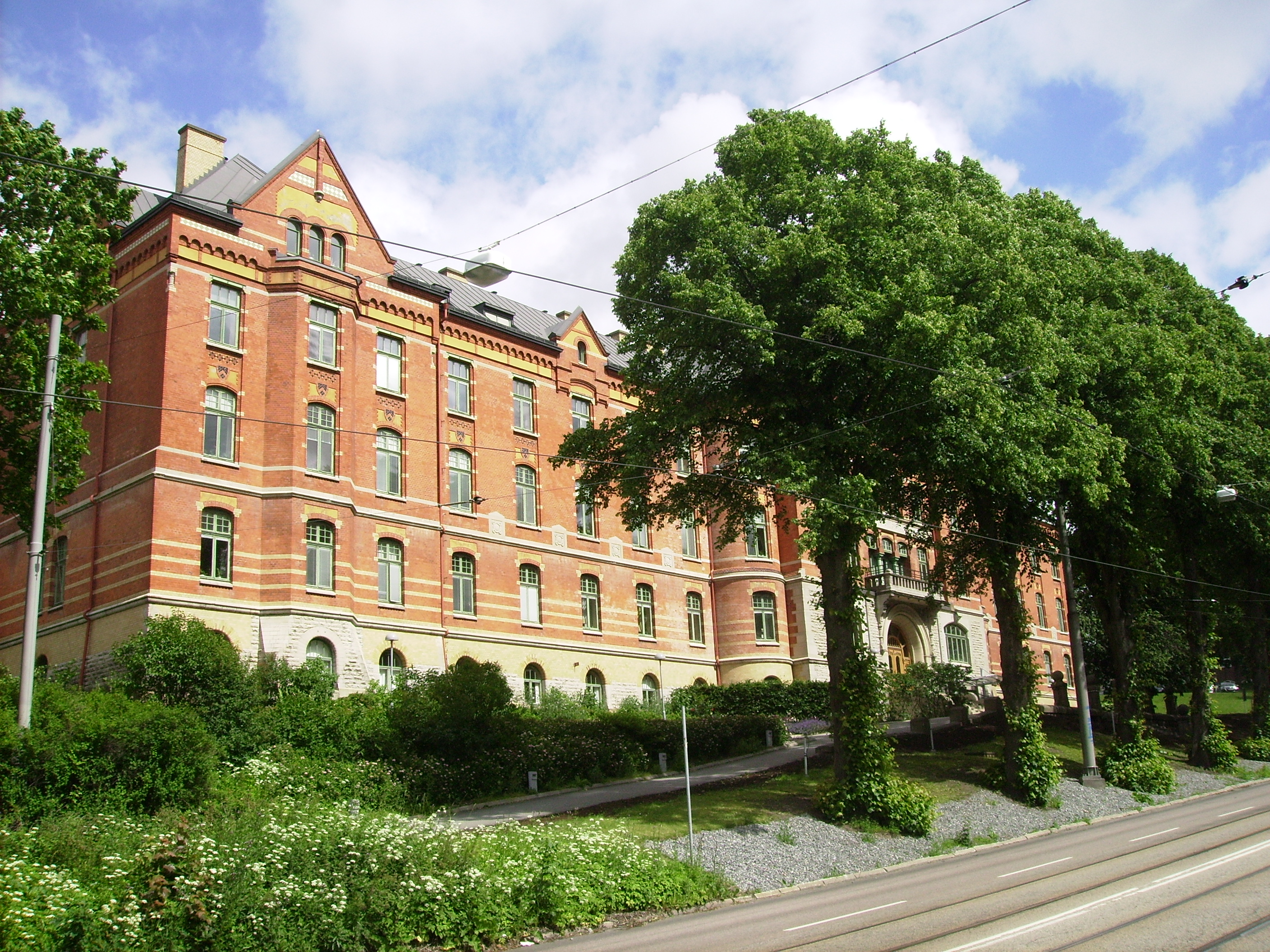 Picture of Göteborgs sjukhem, hospital in Gothenburg